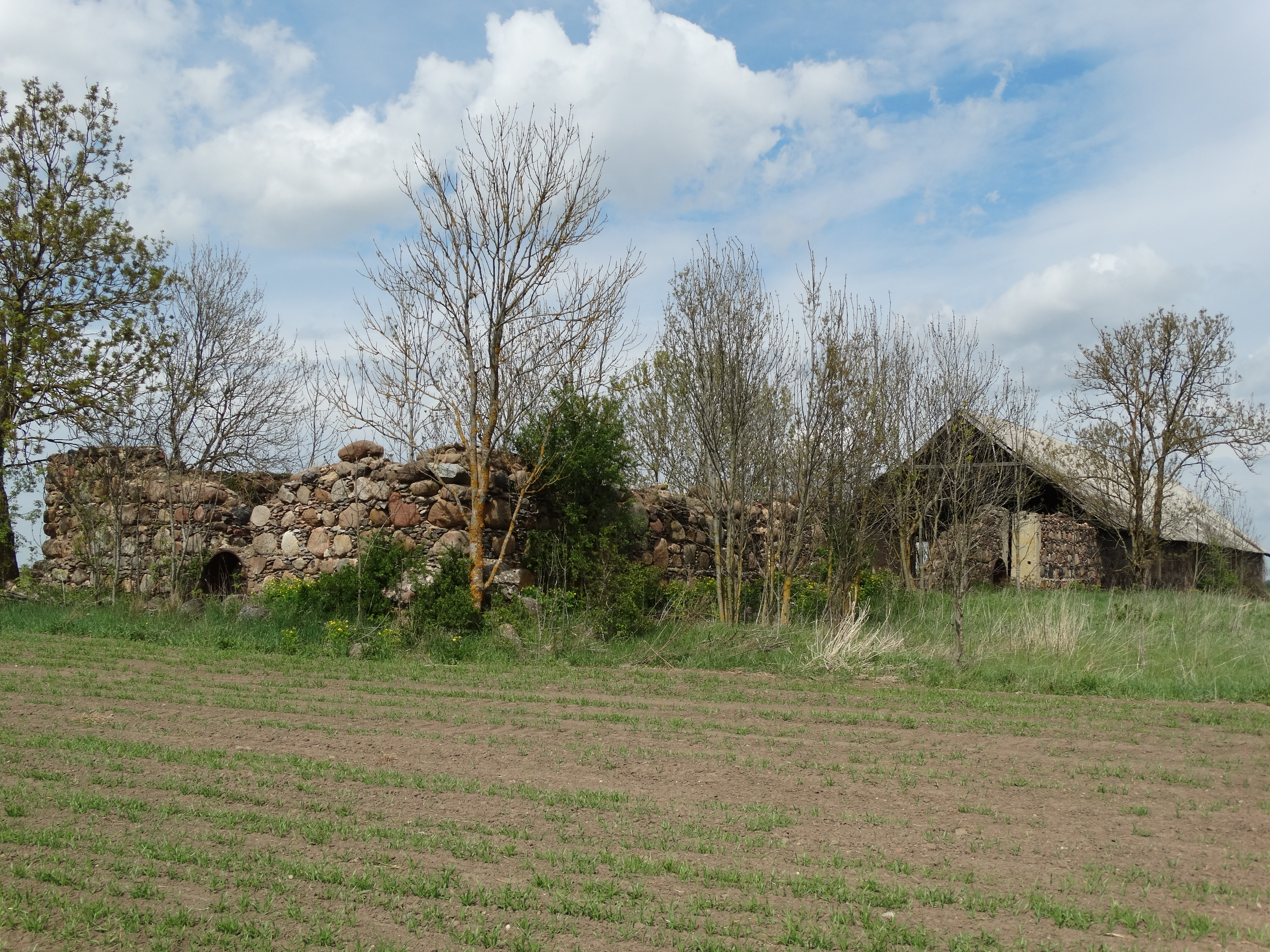 Vileikiai, Radviliškis district, Lithuania